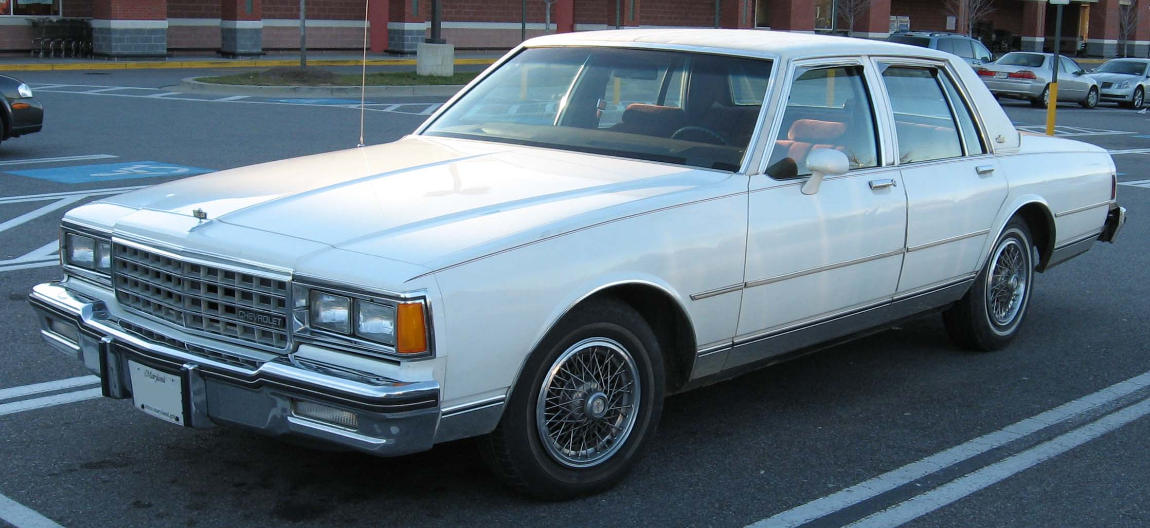 1981-1985 Chevrolet Caprice photographed in USA.